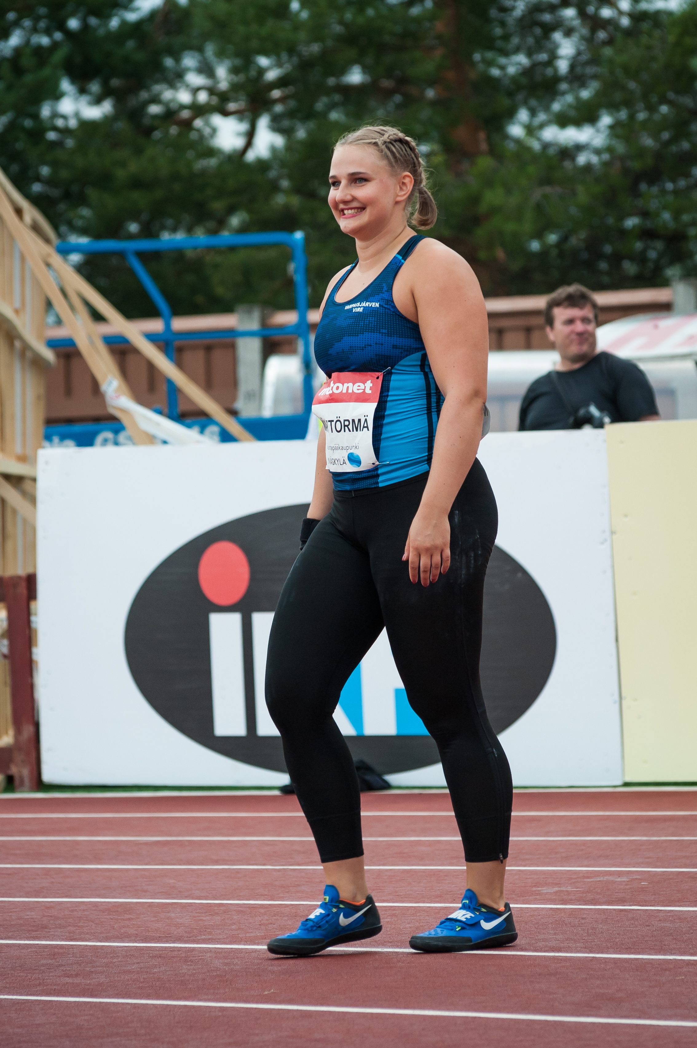 Women's shot put competition at the 2018 Kalevan Kisat, the Finnish championships in athletics, in Jyväskylä, Finland.